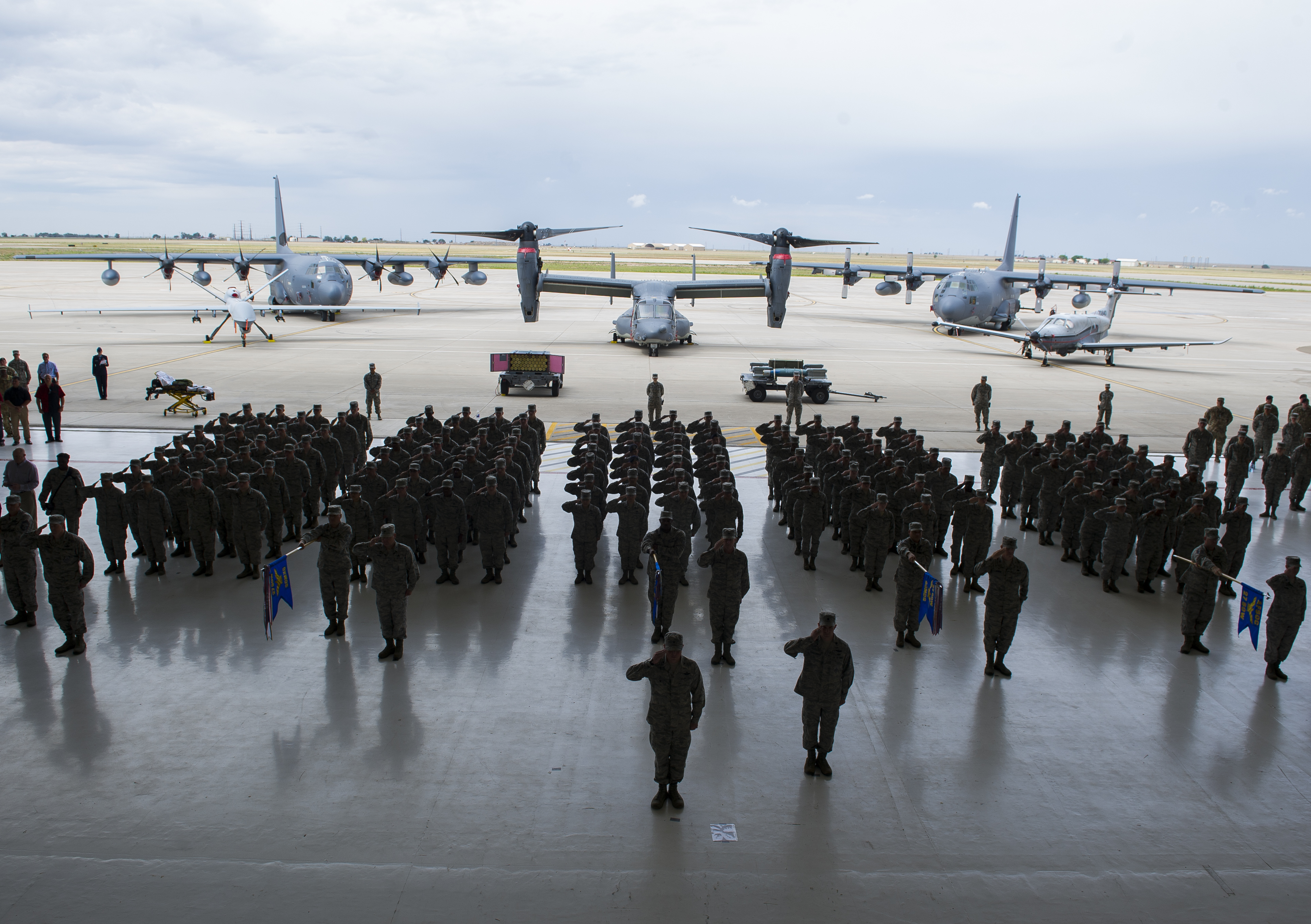 U.S. Airmen render a salute for the posting of the colors during the 27th Special Operations Wing’s change of command ceremony at Cannon Air Force Base, N.M., Jun. 2, 2017. Col. Stewart Hammons relieved Col. Benjamin Maitre as the 27th SOW commander. (U.S. Air Force Photo by Senior Airman Lane T. Plummer)